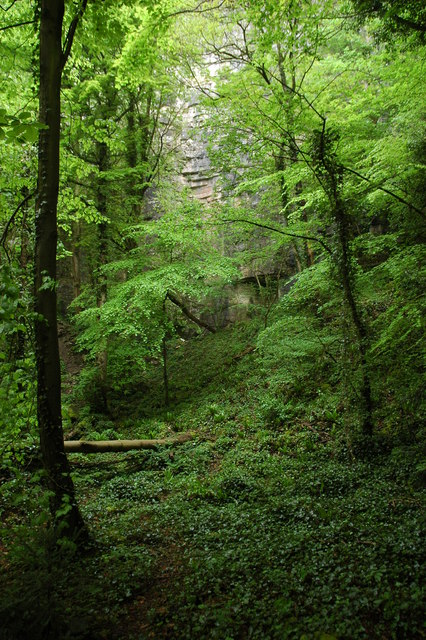 Below Wintour's Leap Rock face below Wintour's Leap viewed through trees from the footpath to Lancaut Wood Nature Reserve.